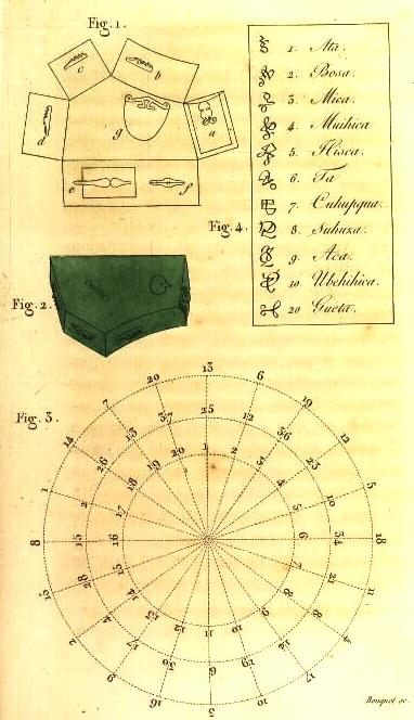 Lunar calendar of the Muyscas